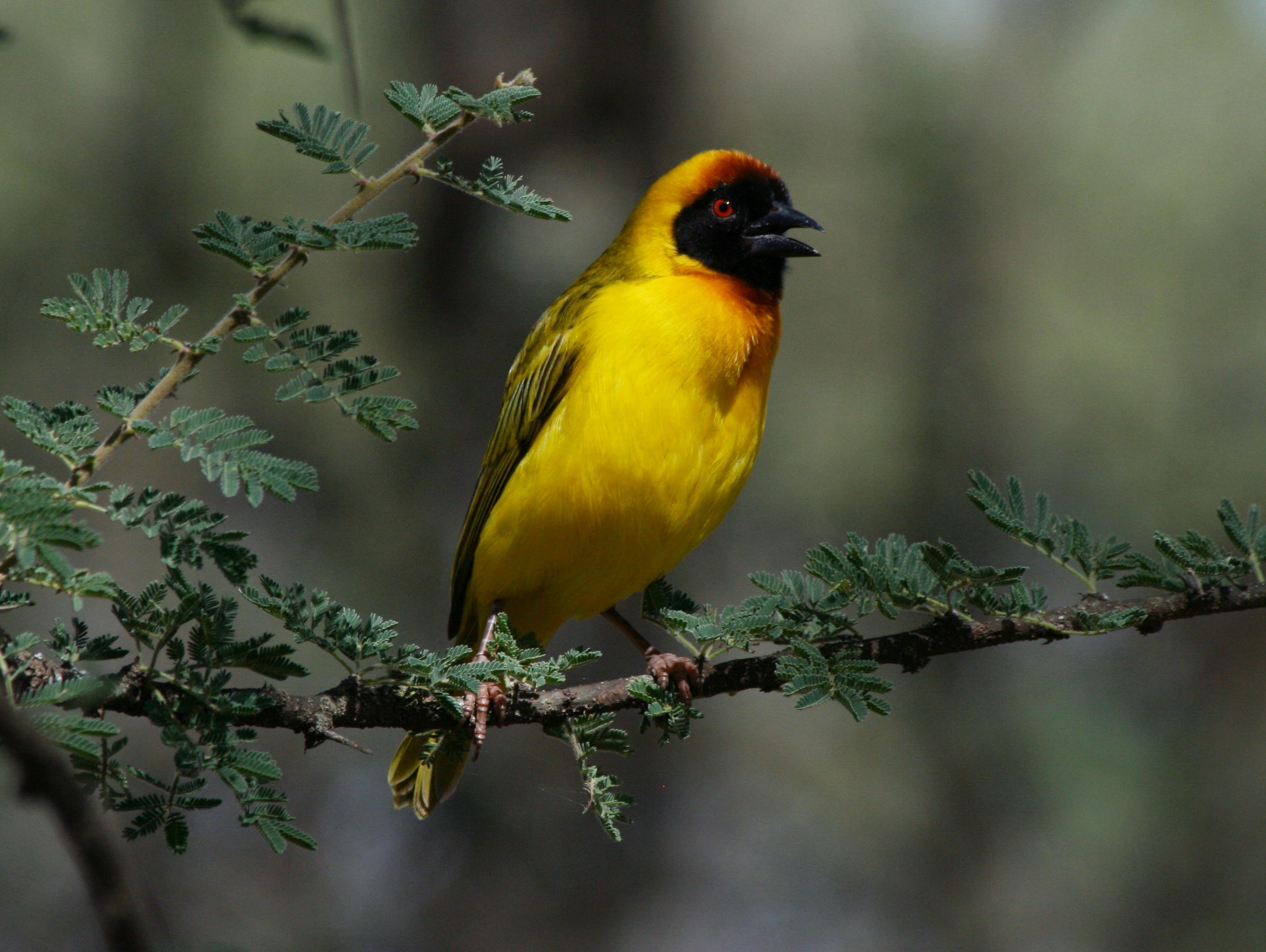 Vitelline Masked Weaver(Ploceus vitellinus) - Serengeti National Park, Tanzania